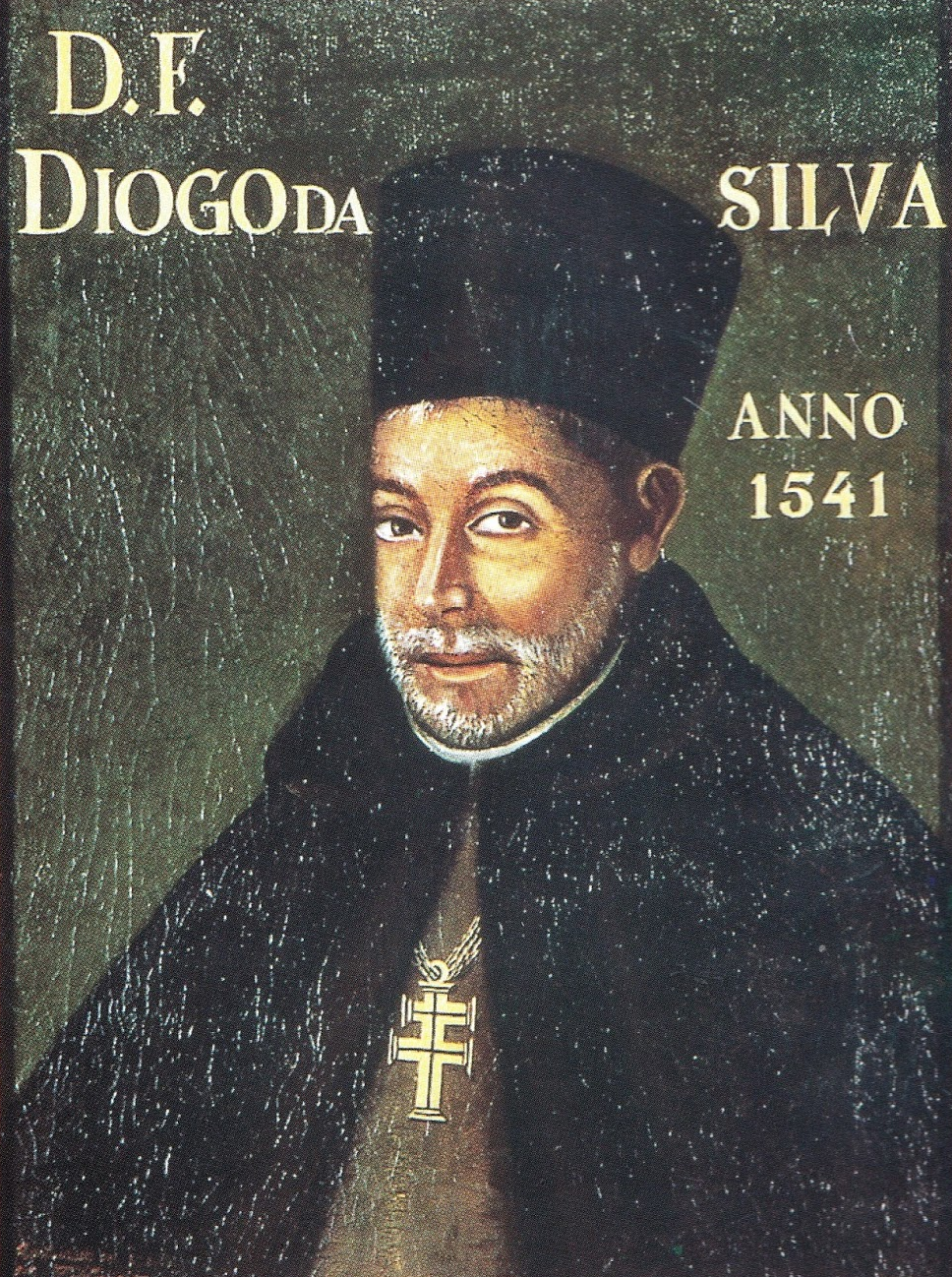 Portrait of Friar D. Diogo da Silva in the Gallery of the Archbishops of Braga.